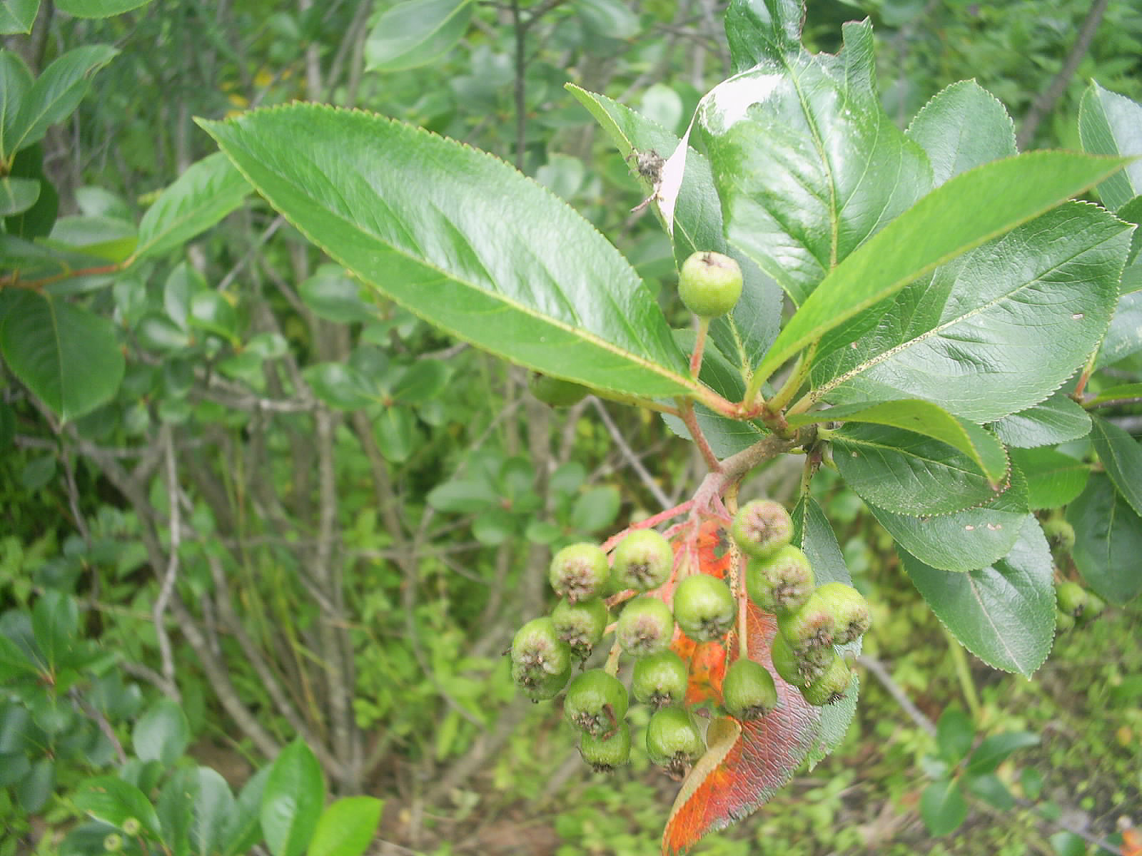 Green Berries of Aronia melanocarpa